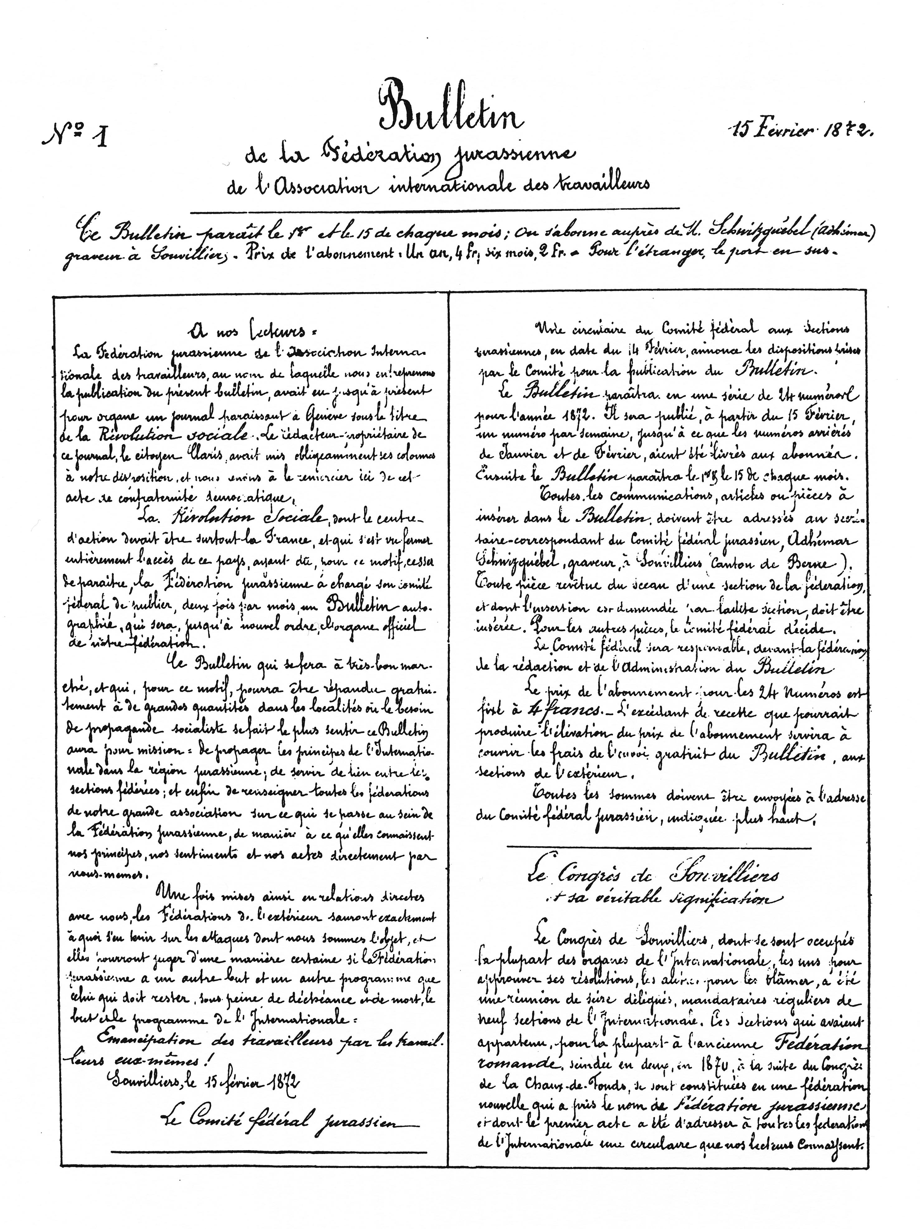 First (handwritten) edition of the Bulletin de la Fédération Jurassienne.